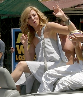 Debbie Gibson at LA Pride 2007. Cropped from original, colour slightly corrected for clarity.